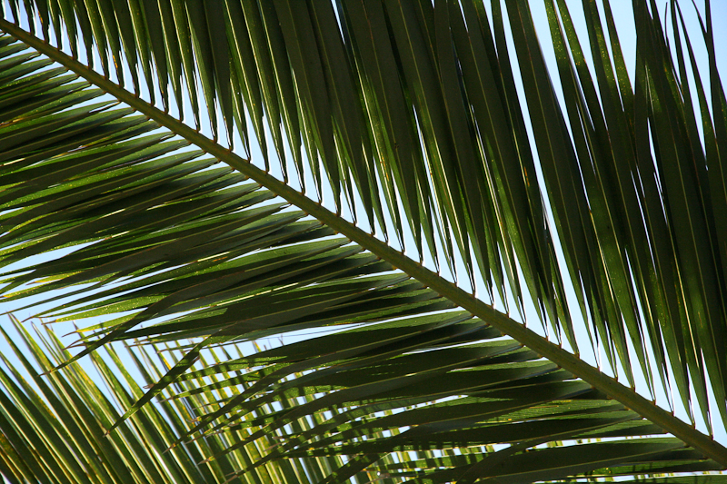 Downstairs. Coelheiras